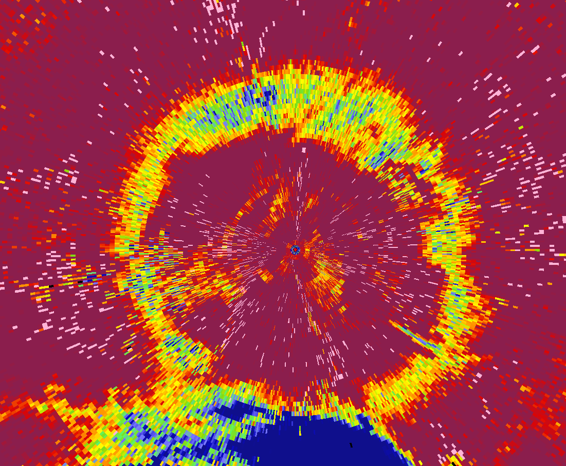 Dual-polarization weather radar image of an easily identifiable freezing layer, denoted by the yellow ring around the radar. It is known as the bright band